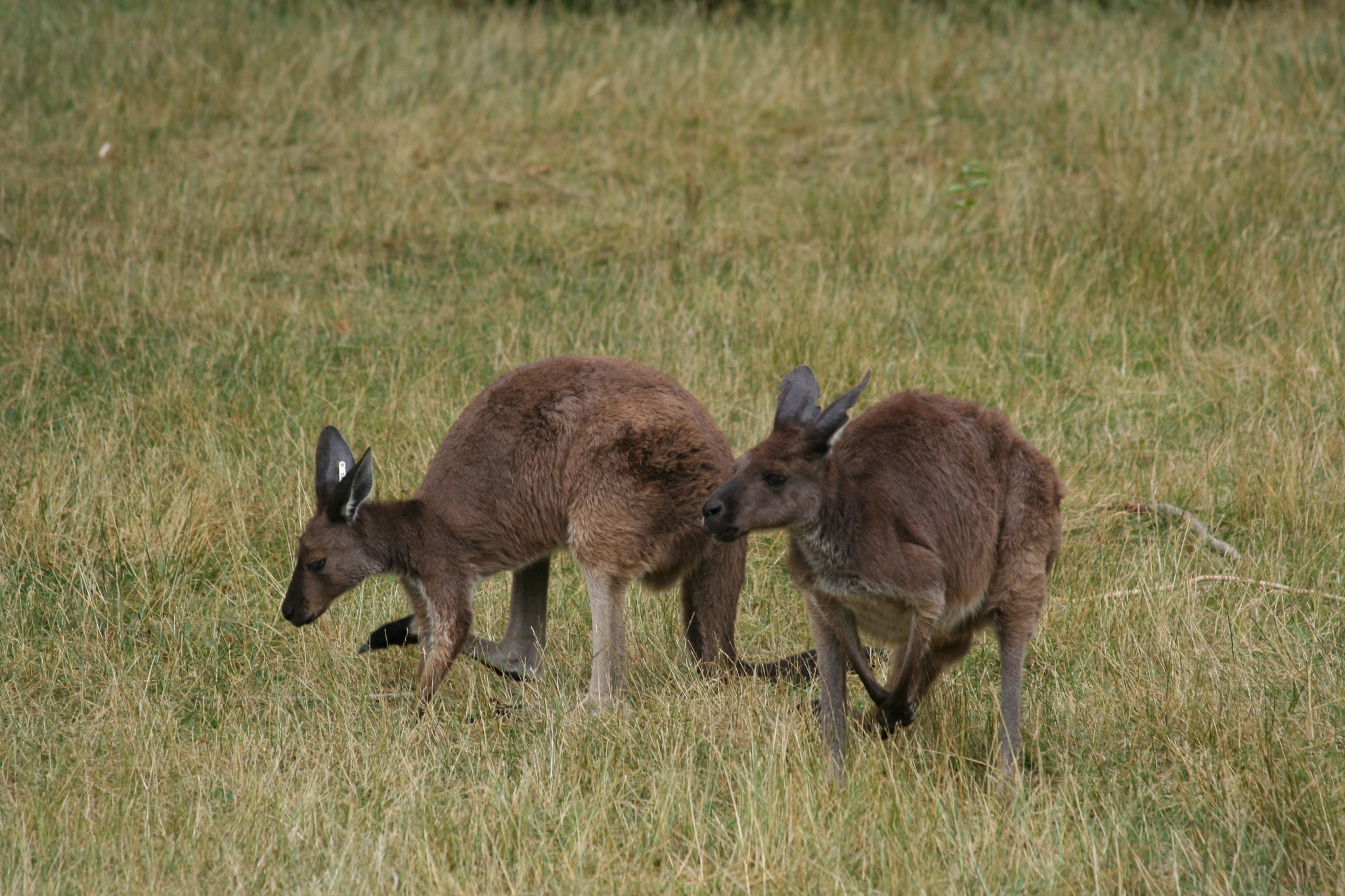 A pair of western grey kangaroos, taken at the Toronto Zoo. Taken with a Canon EOS 350D & 70-300mm f4-5.6 IS USM lens. – Ber'Zophus